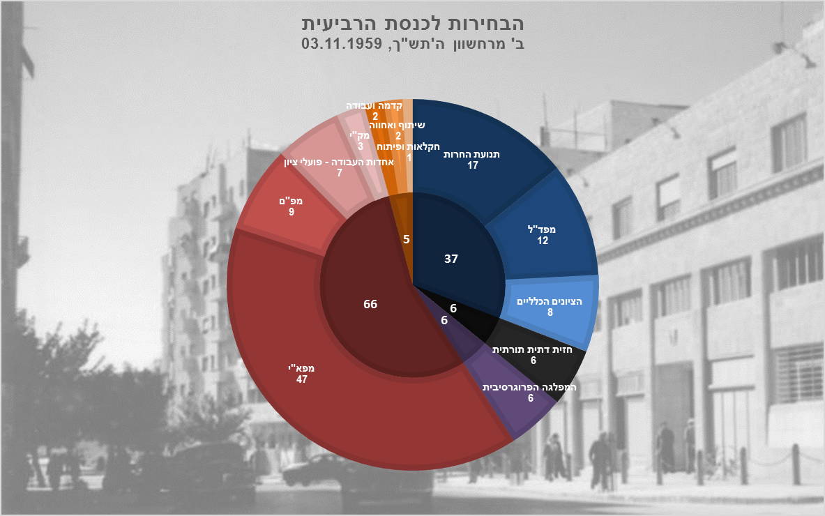 תוצאות הבחירות לכנסת הרביעית